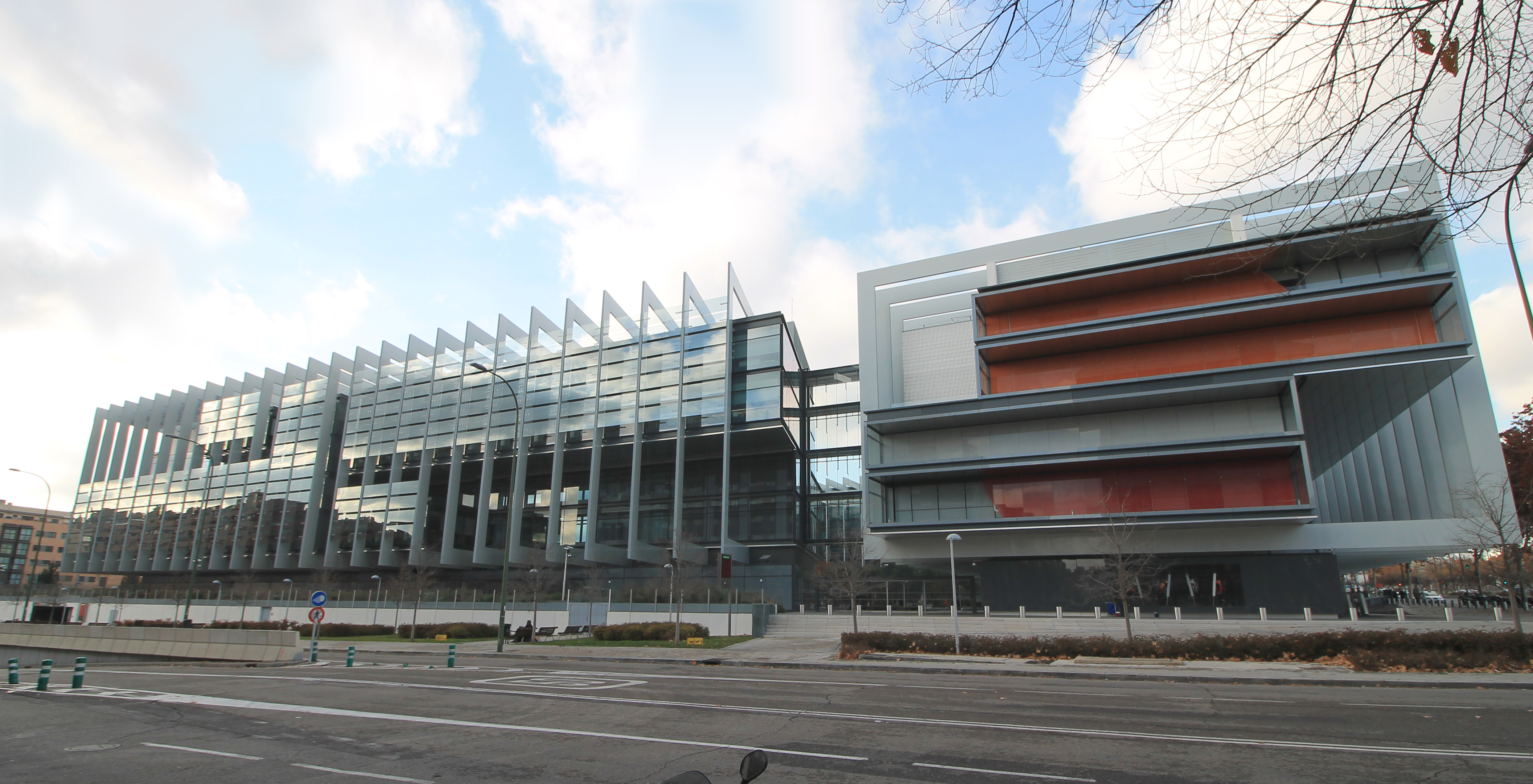 South-east façade of Repsol headquarters in Madrid (Spain).